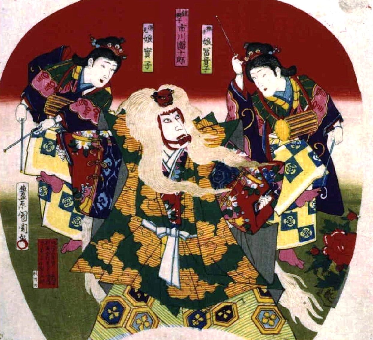 Ukiyo-e (Japanese woodblock print) "Ichikawa Danjuro IX Performing in Kagami-jishi" by Toyohara Kunichika, 1893